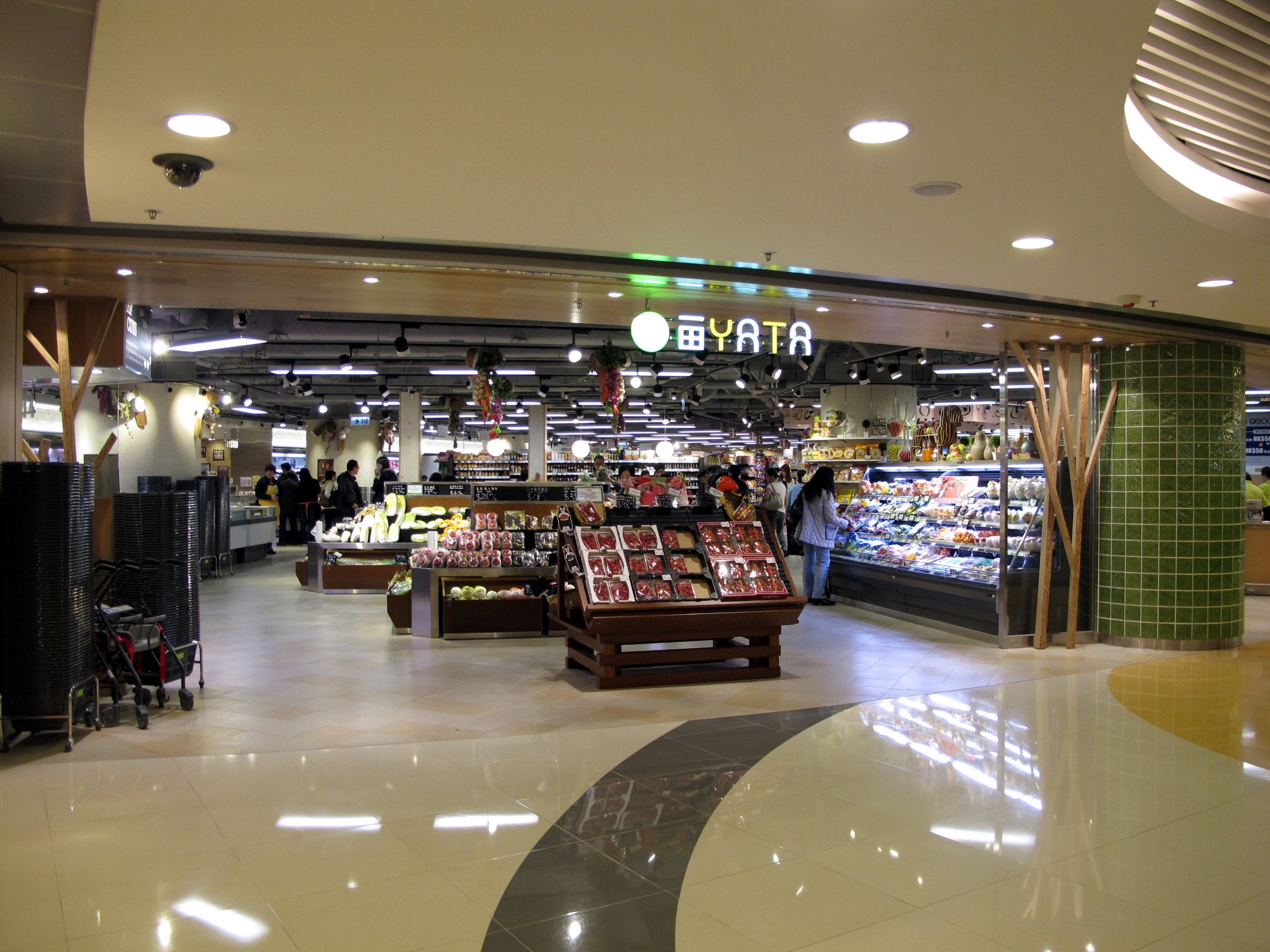 Yata Supermarket in Grand Century Place